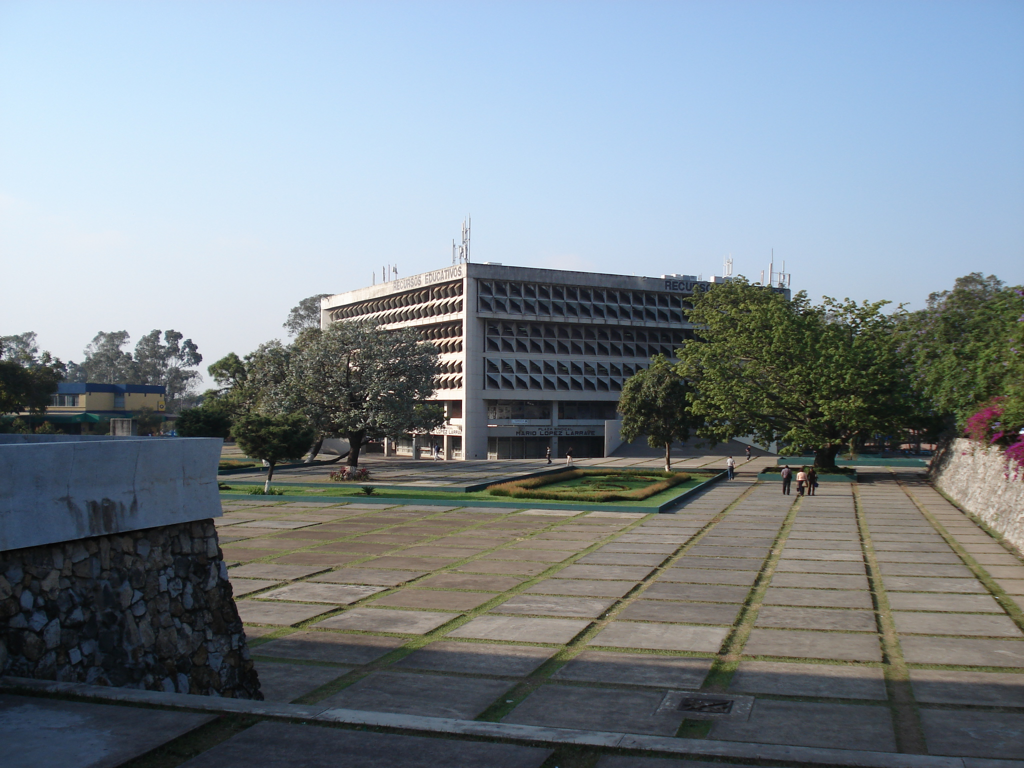 Photo of the Central square at USAC, featuing the "Plaza de los Mártires" and the central Library